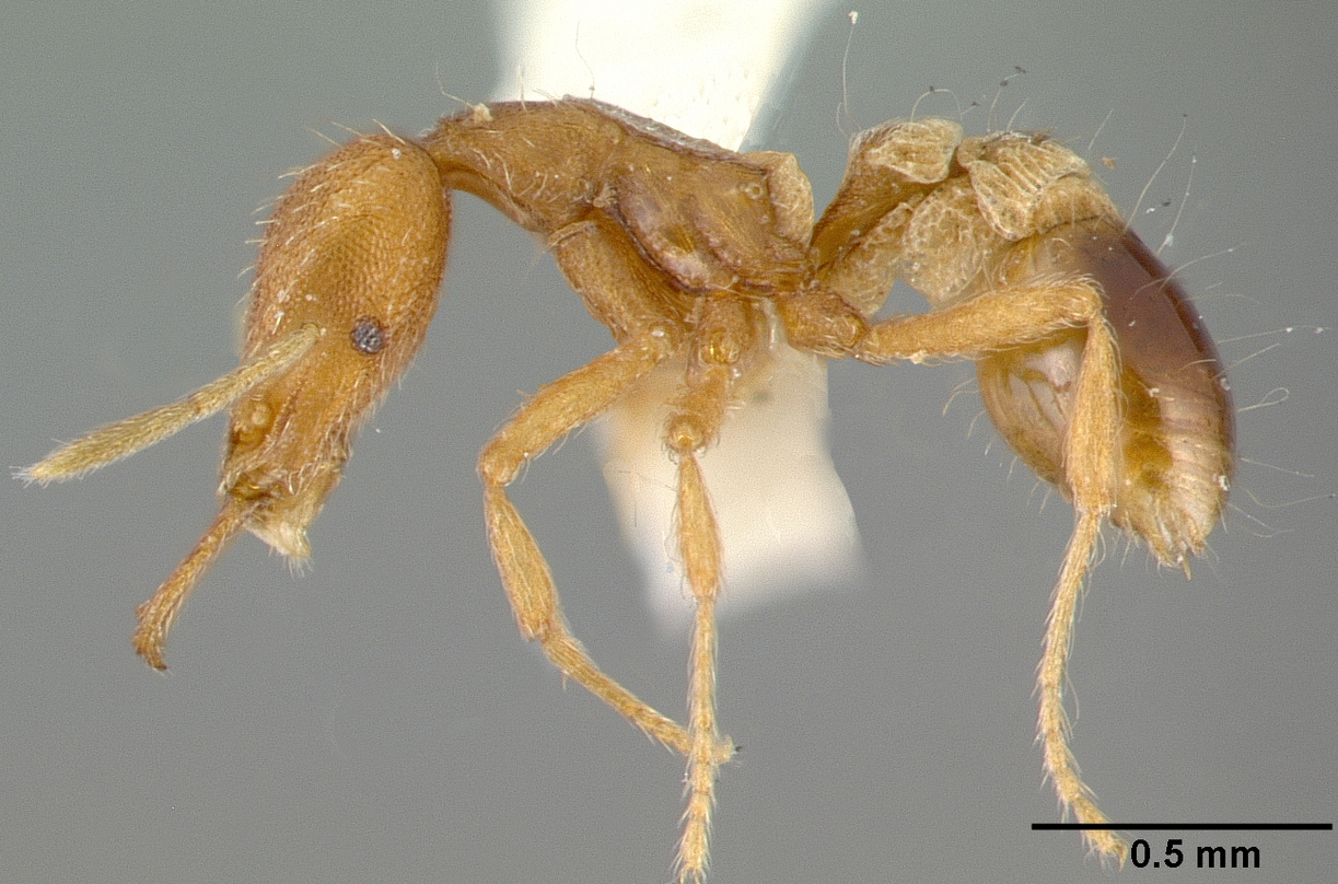 Profile view of ant Strumigenys lewisi specimen casent0010646.